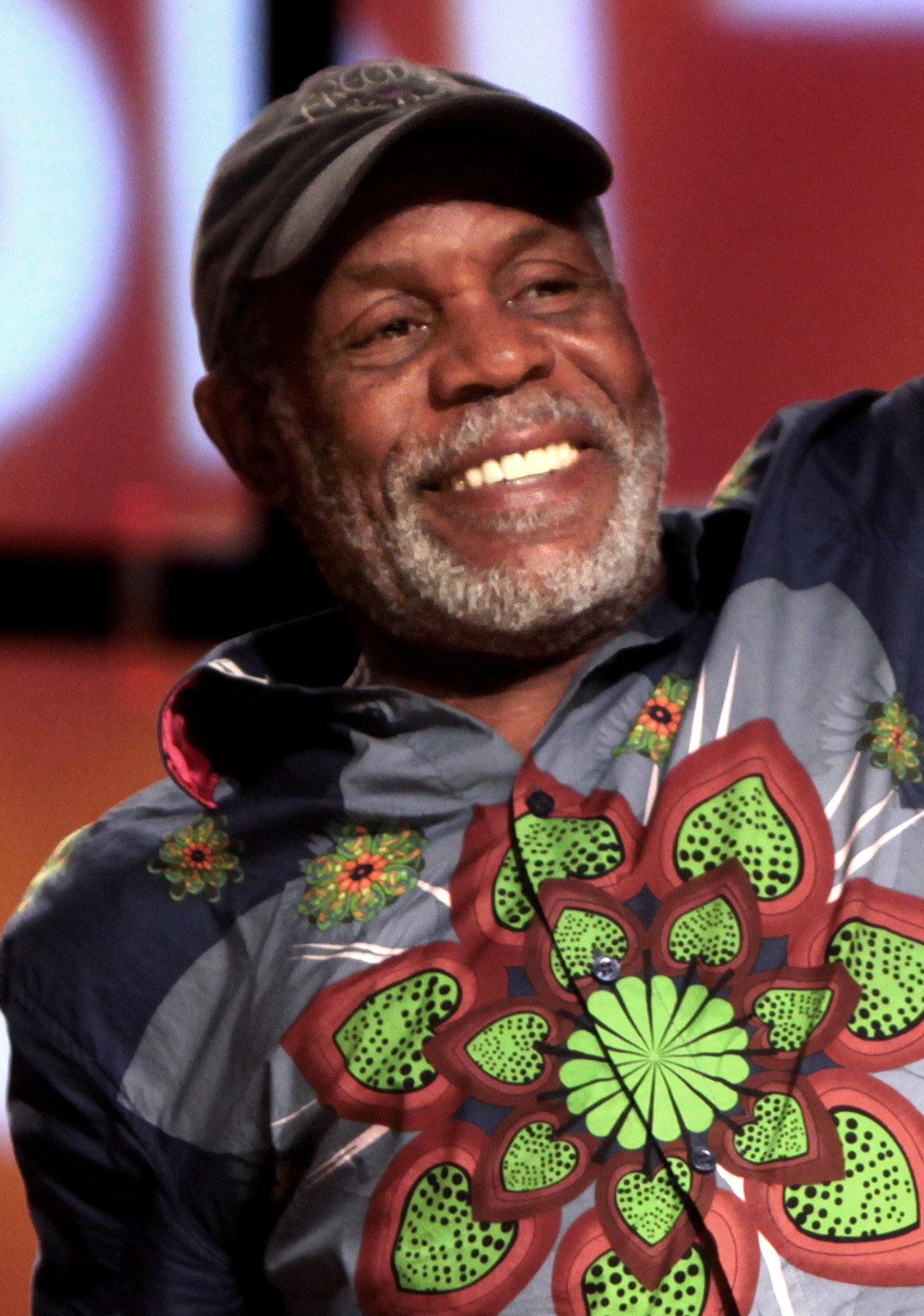 Danny Glover speaking at the 2014 Phoenix Comicon at the Phoenix Convention Center in Phoenix, Arizona by Gage Skidmore